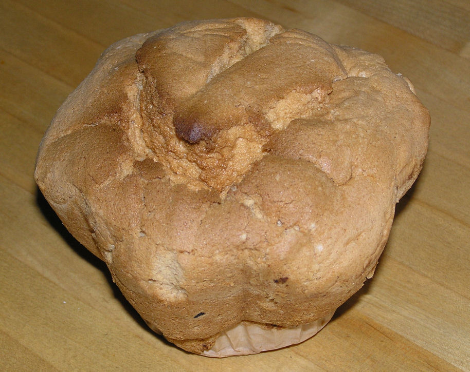 Chinese pastry Gaa Neoi Bing or Marry girl cake